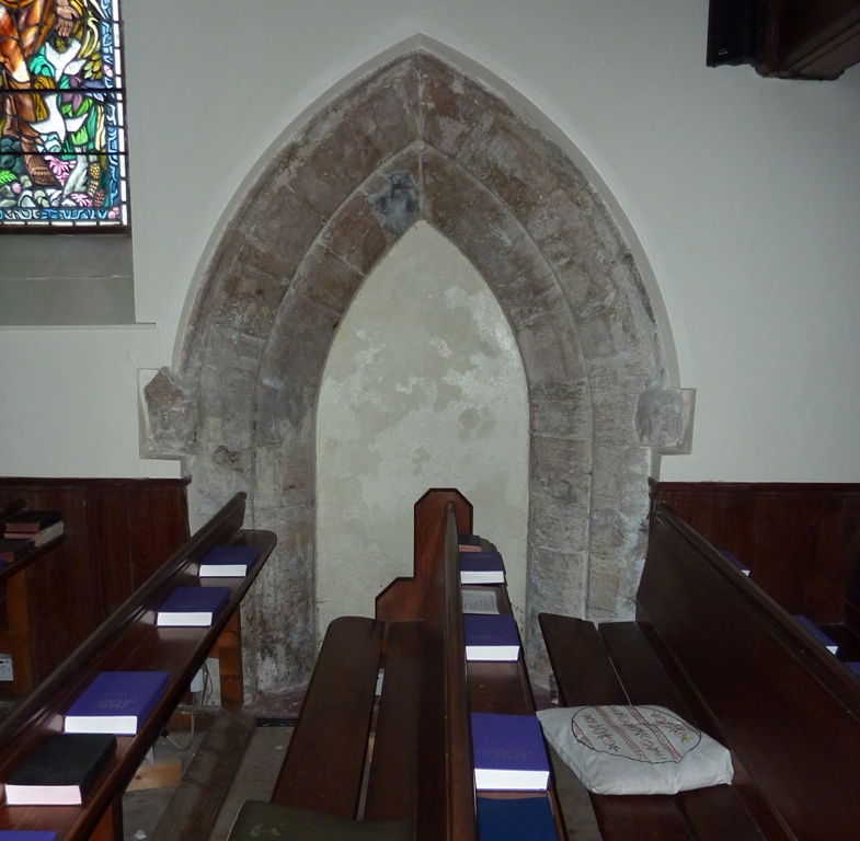 St Moluag's Cathedral, Lismore, Scotland. Former doorway in the northern wall.